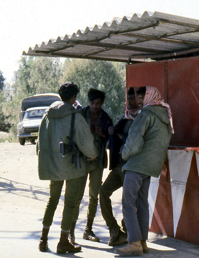 Israeli soldiers and Arabs in the Galilee in 1978. Photography by Leif Knutsen.